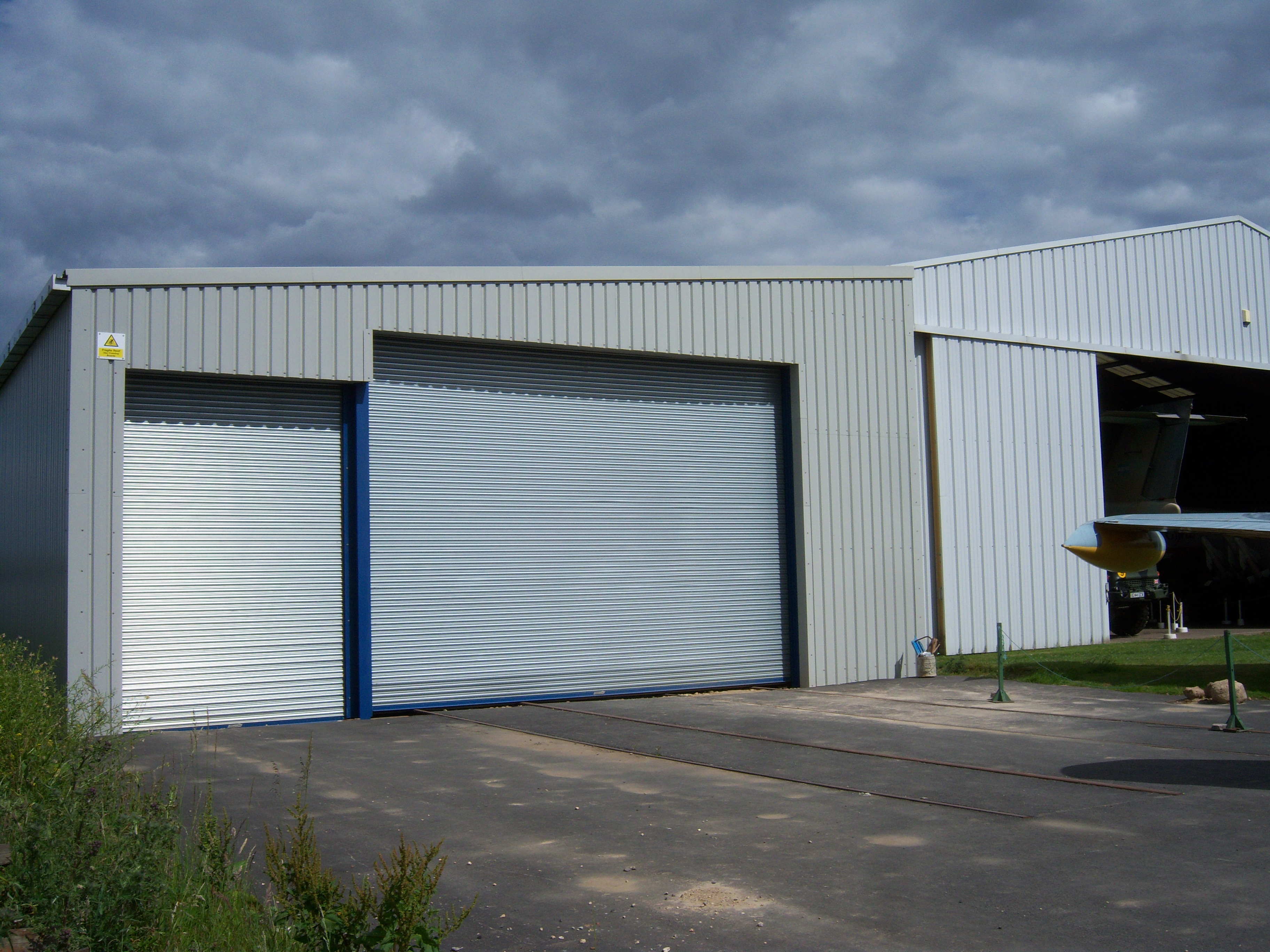 Seen at the NELSAM site in Sunderland.